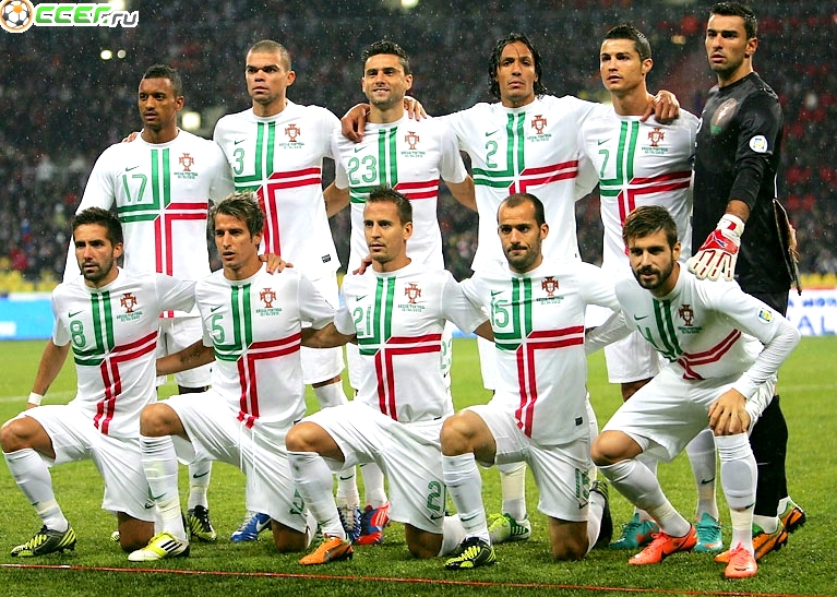 Portugal national football team 2012